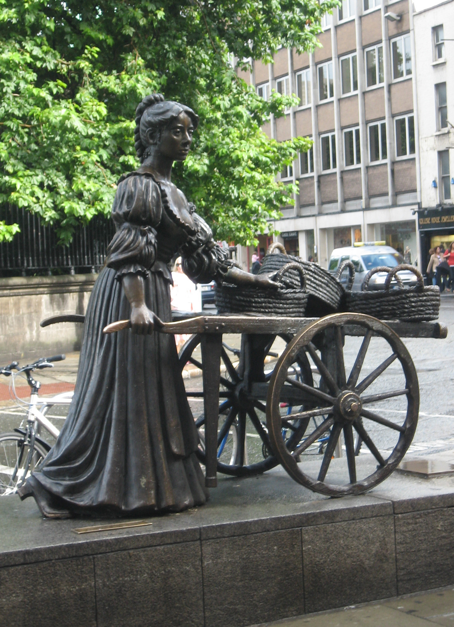 Statue of Molly Malone on Grafton Street (Sráid Grafton), Dublin.